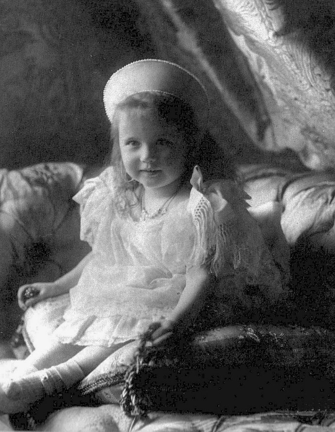 This photo of Grand Duchess Anastasia Nikolaevna of Russia, taken in 1904, was reproduced on post cards prior to World War I. I think it is most likely in the public domain. I located the image at